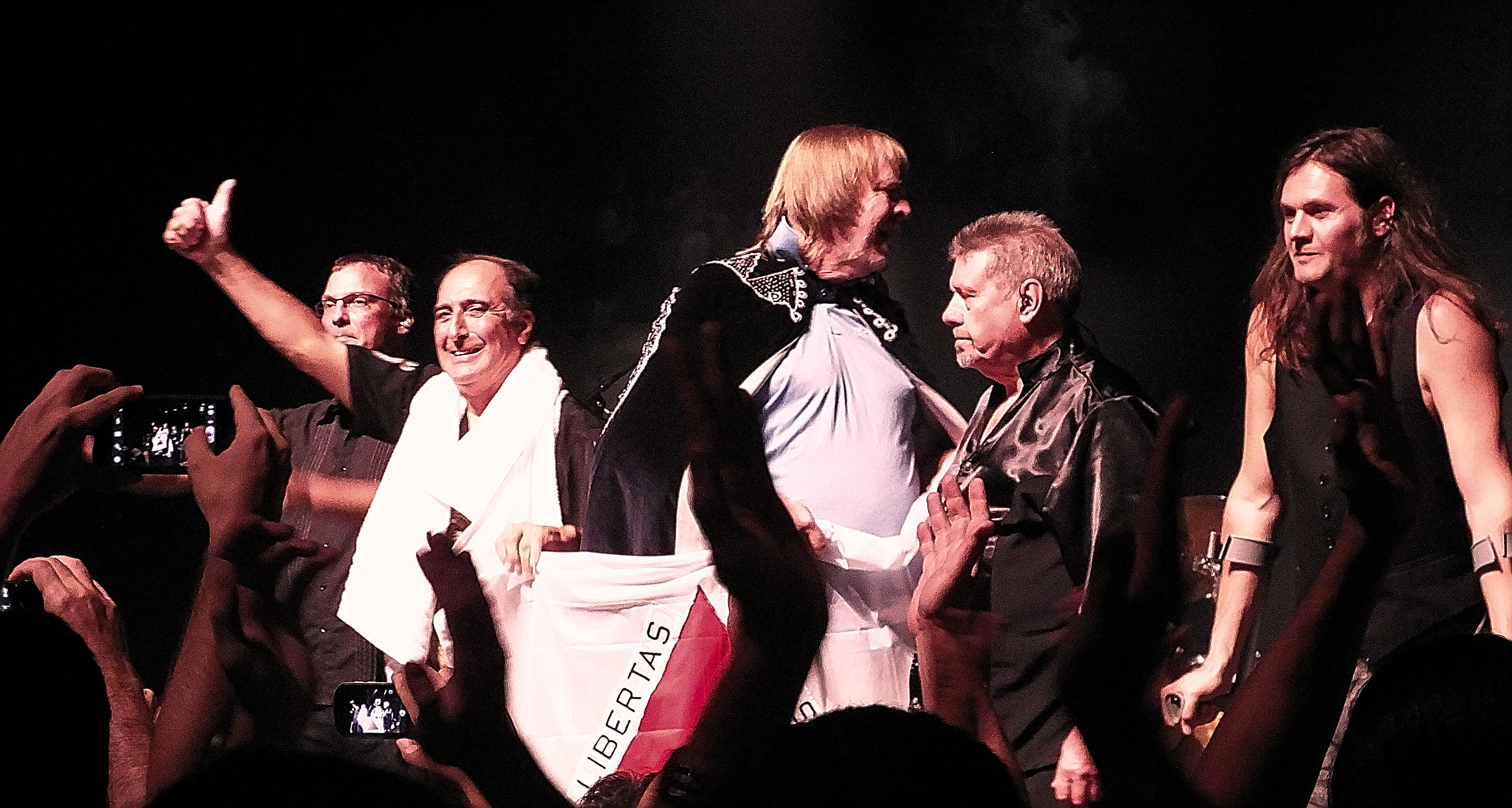 The whole band, after the show. Tony Fernandez on stage at Rick Wakeman's brazilian tour Voyage to the Centre of the Earth, in Belo Horizonte, Brazil, 01 november, 2014.